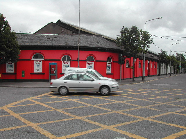 Former Albert Street station, Cork. The Cork, Blackrock & Passage Railway was not only one of the earliest railways in Ireland but also the only narrow gauge railway in the British Isles to have double track. The railway closed in 1932 but the Albert Street terminus still stands and is used by a firm of builders merchants.